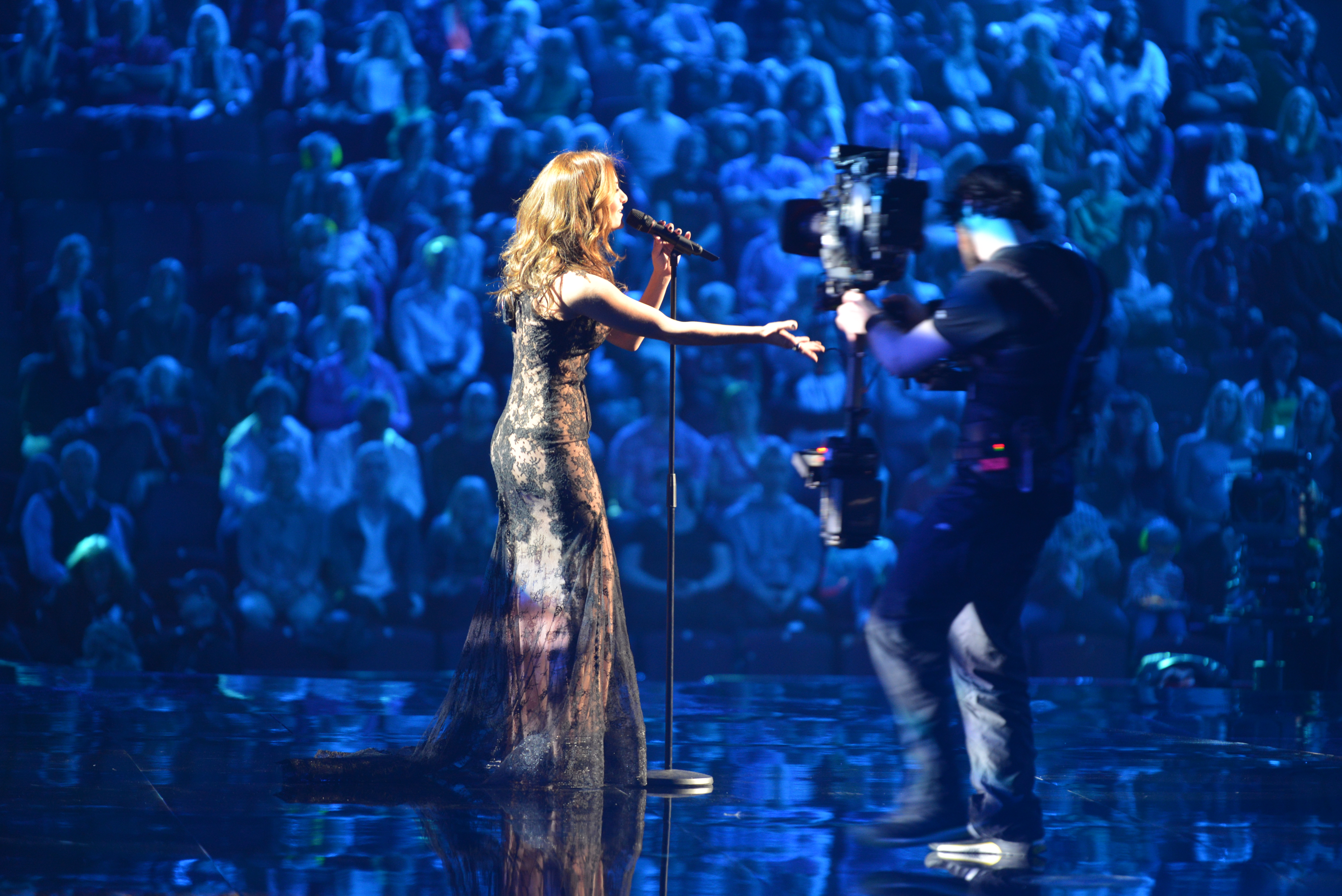 Despina Olympiou representing Republic of Cyprus with the song "An Me Thimase" during the third dress rehearsal of the first semi final of the Eurovision Song Contest 2013 Malmö. (Help translate this text)